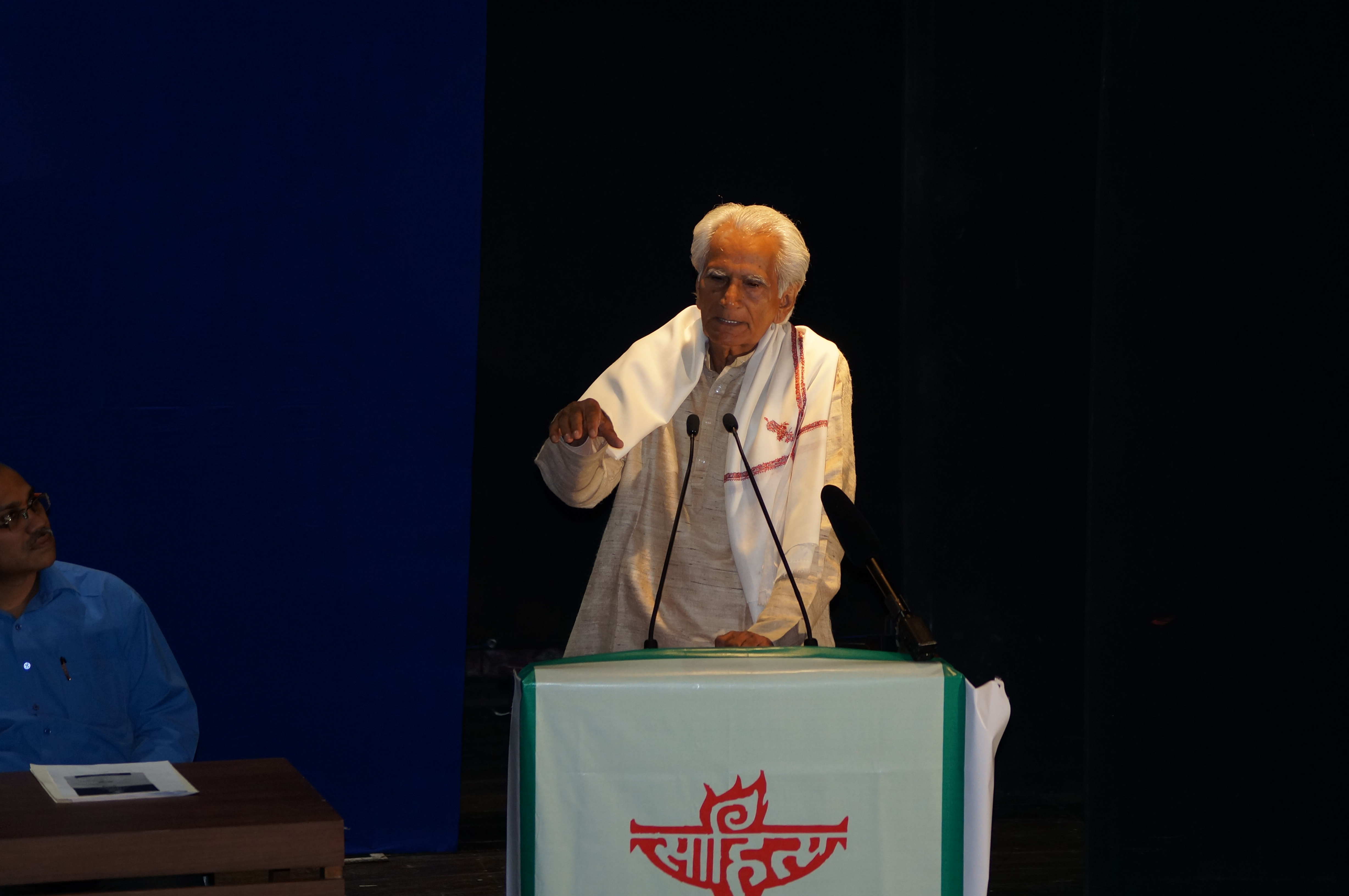 શ્રી રઘુવીર ચૌધરીShree Raghuveer Chaudhari